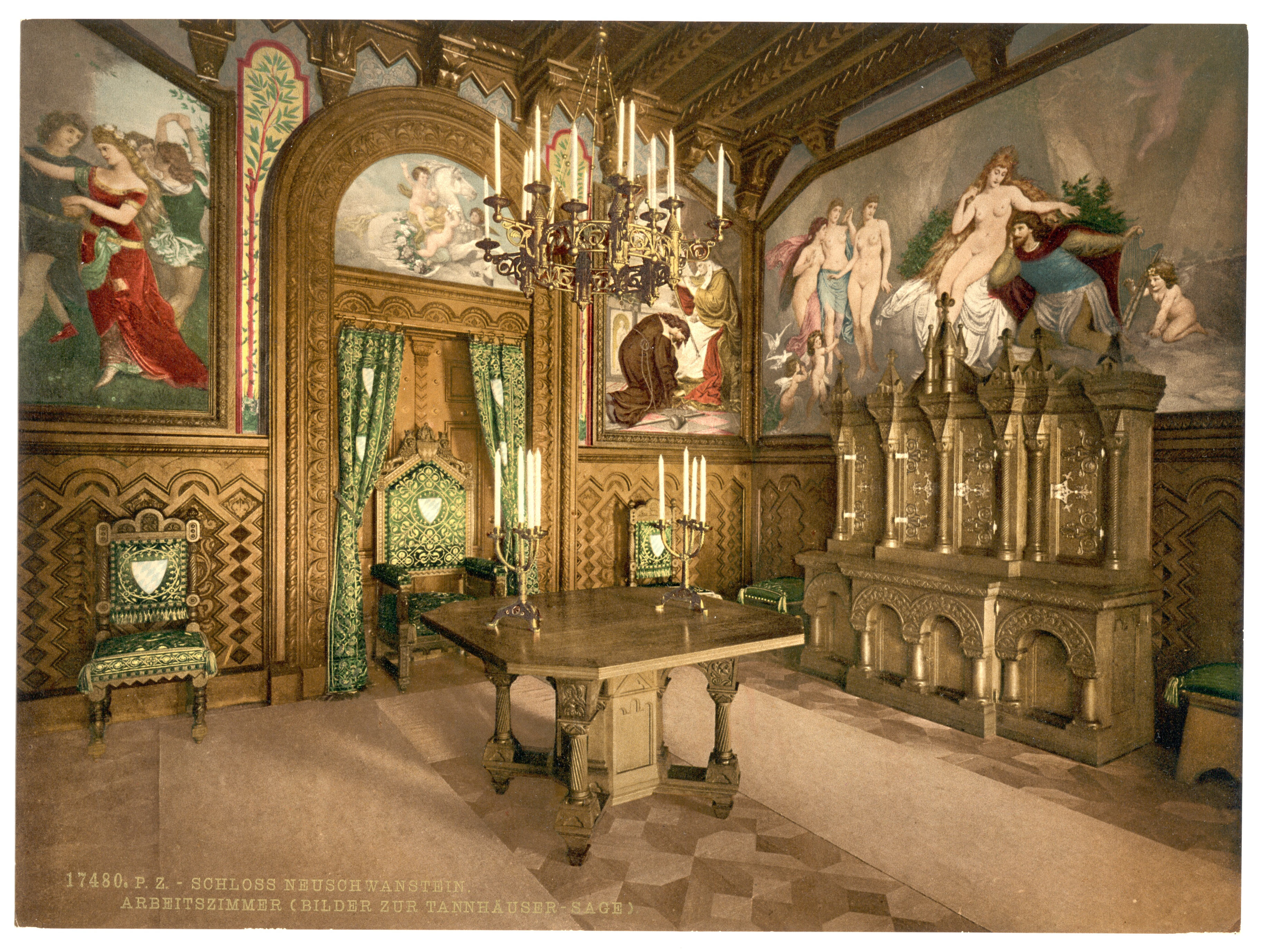 Title from the Detroit Publishing Co., catalogue J-foreign section. Detroit, Mich. : Detroit Photographic Company, 1905.; Print no. "17480".; Forms part of: Views of Germany in the Photochrom print collection.